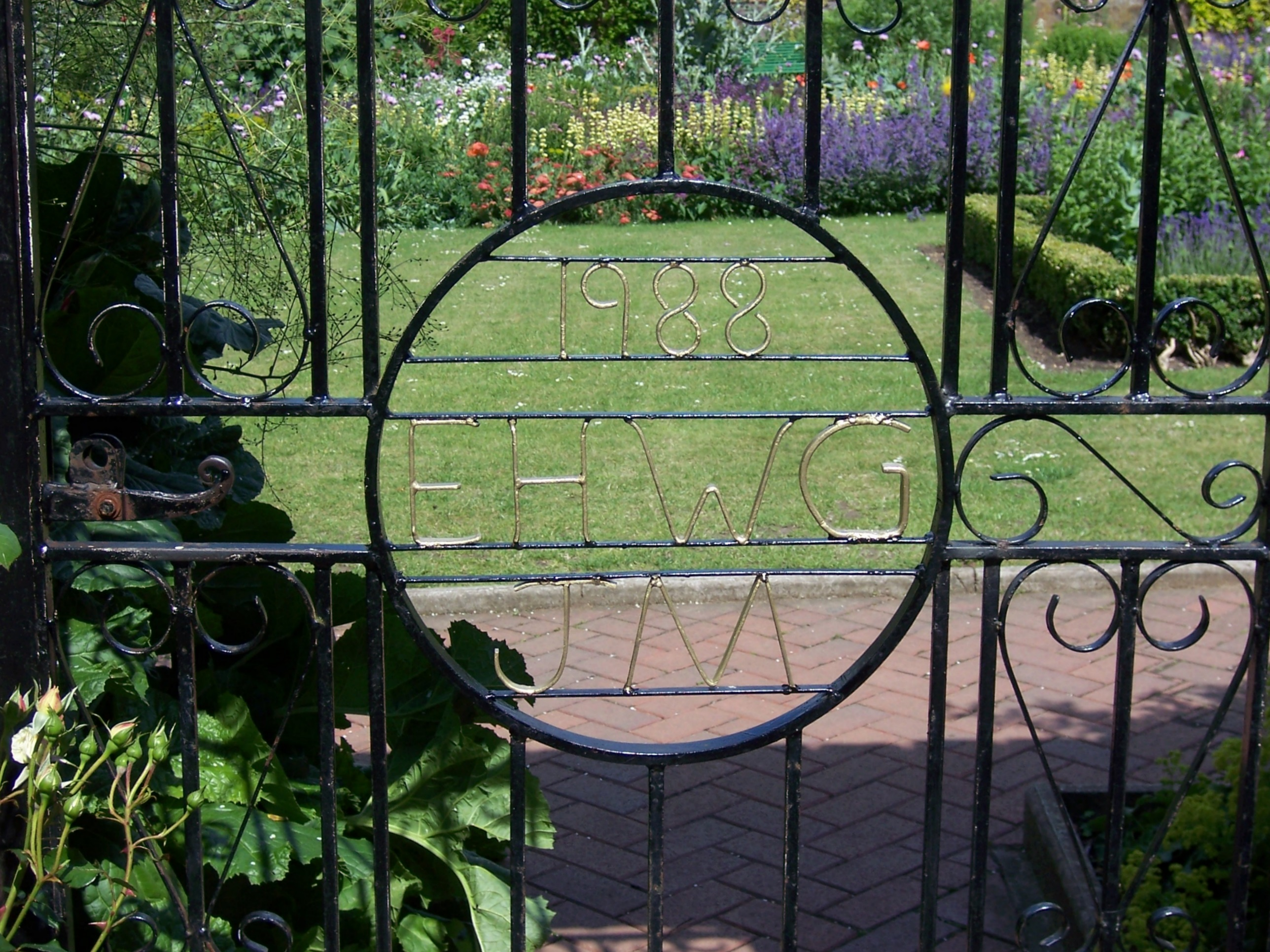 Gate leading to the Eastcote House Gardens